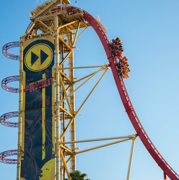 The Hollywood Rip Ride Rockit roller coaster in Florida, USA.